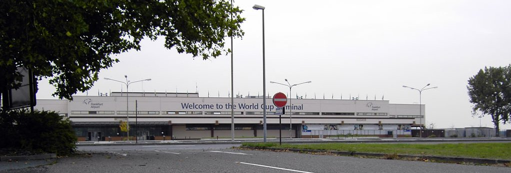 World Cup Terminal am Frankfurter Flughafen World Cup Terminal at Frankfurt Airport